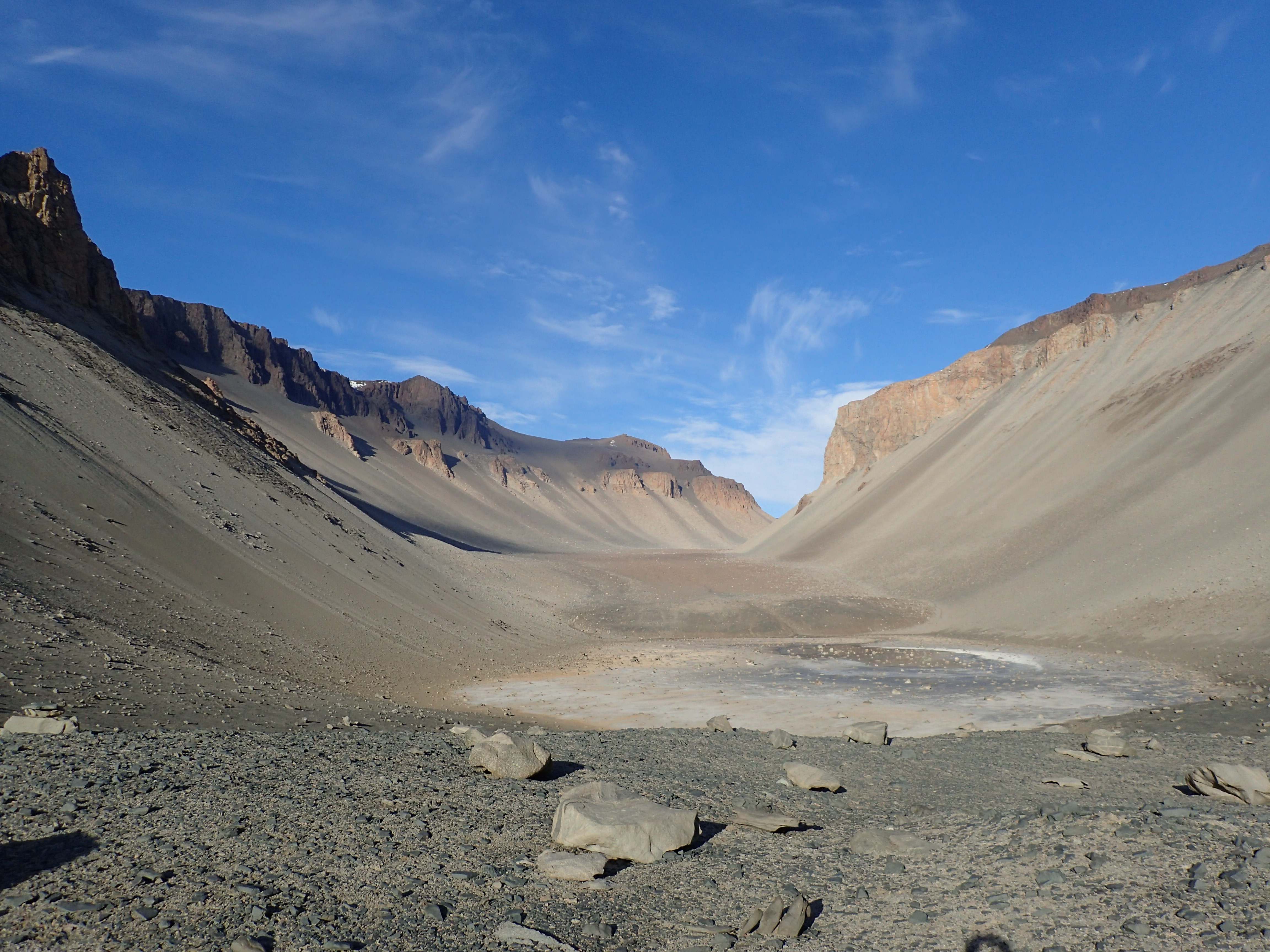 Don Juan Pond, hypersaline lake in South Fork, Upper Wright Valley, Antarctica